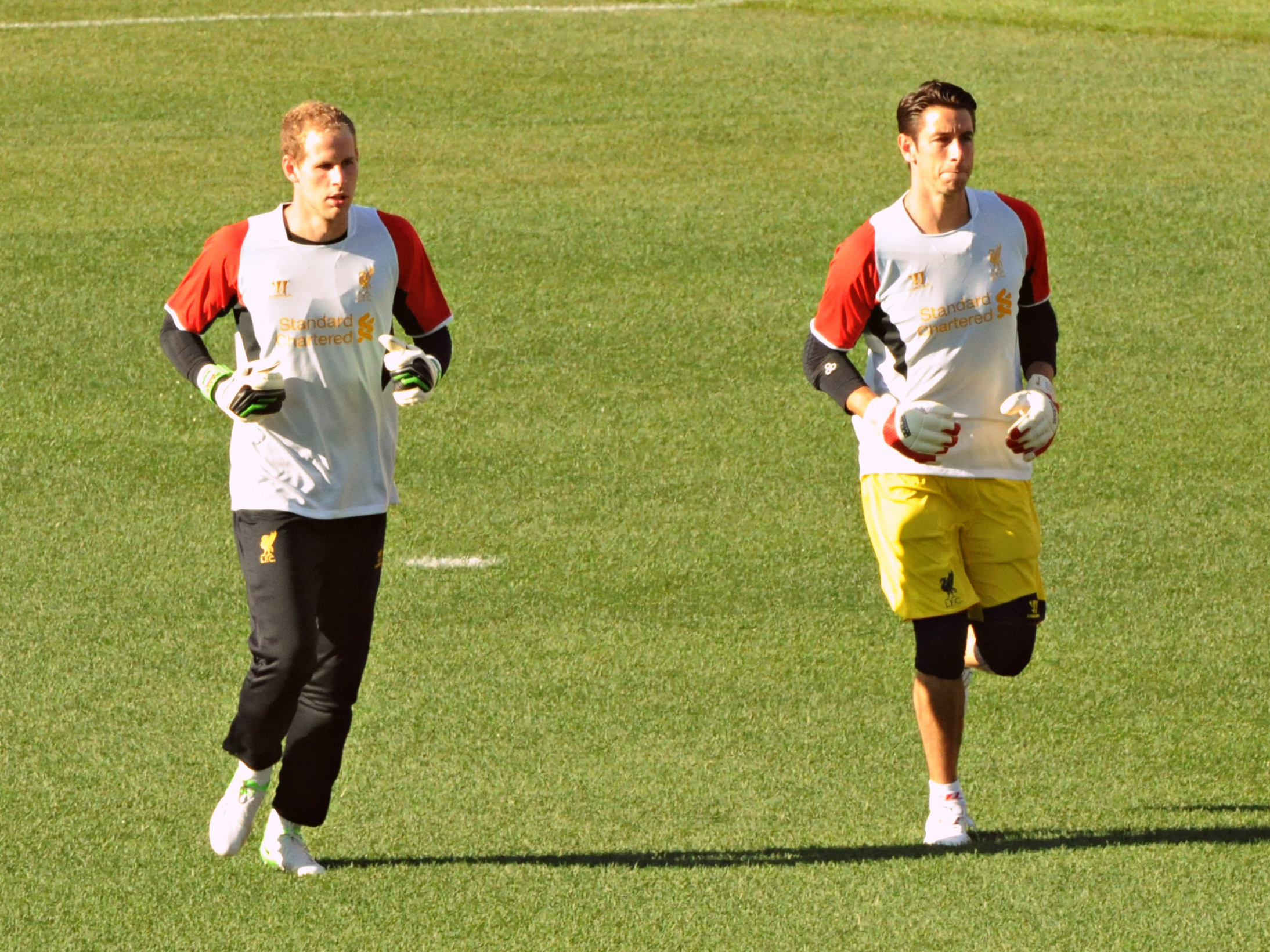 Péter Gulácsi and Brad Jones before the game between Liverpool and AS Roma at Fenway Park, 25 July 2012.